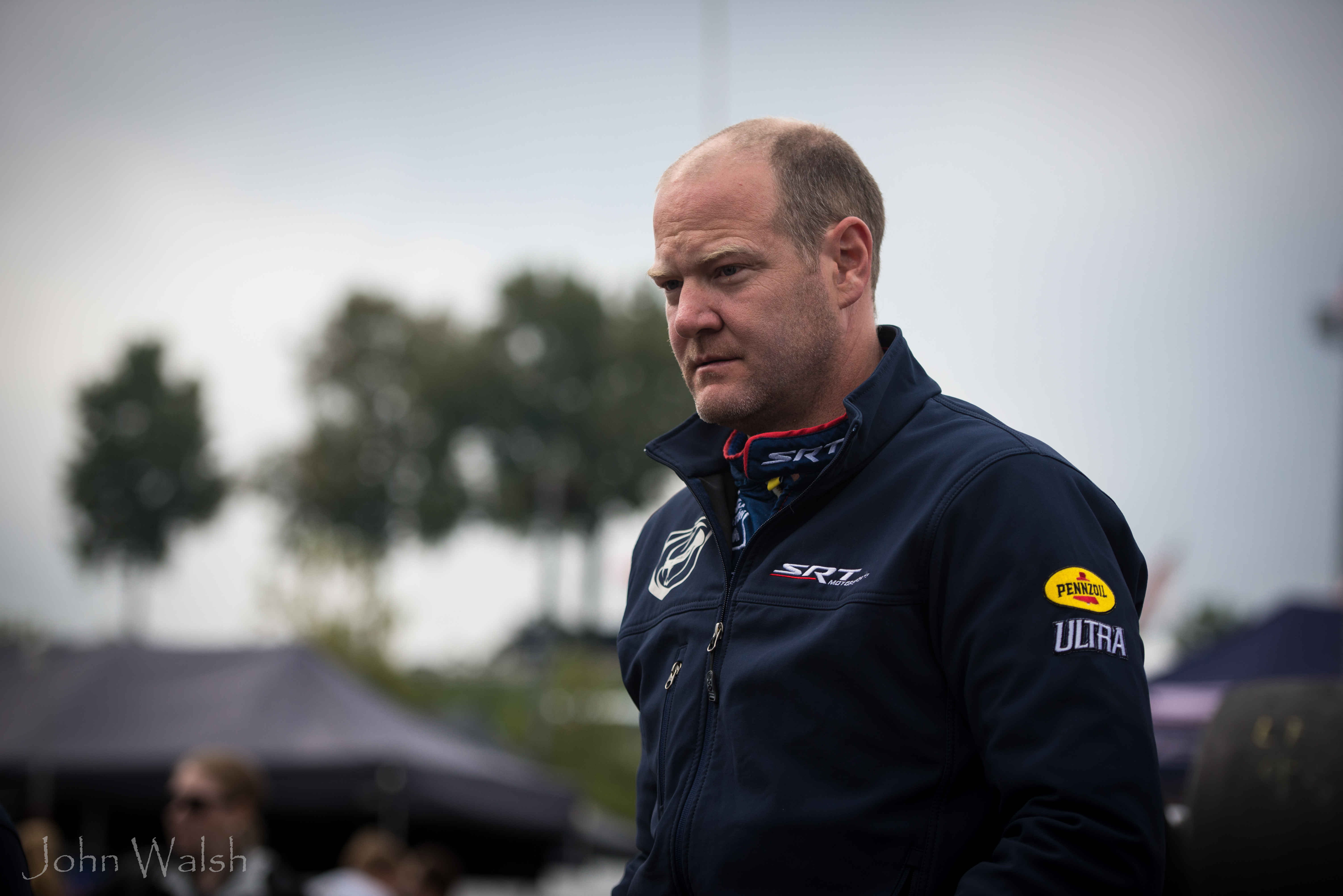 Tommy Kendall - pre-race at Road Atlanta Petit le Mans